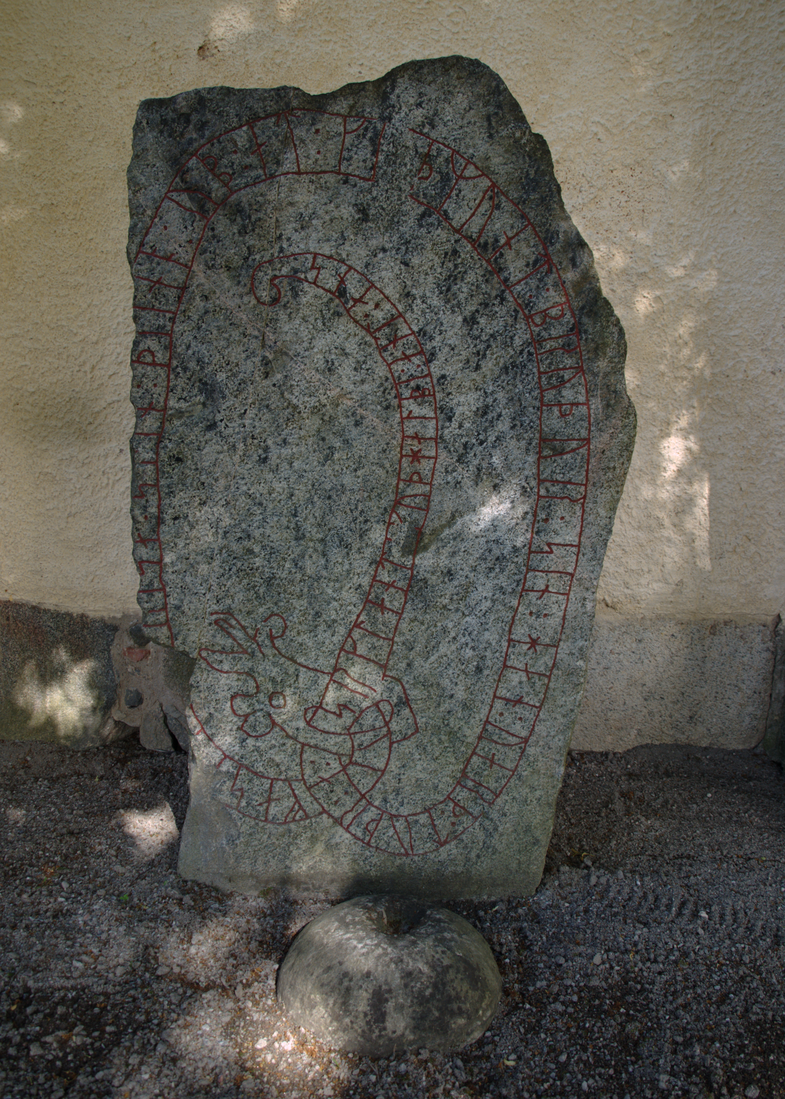 Upplands runinscriptions 785 at Tillinge church, Uppland, Sweden